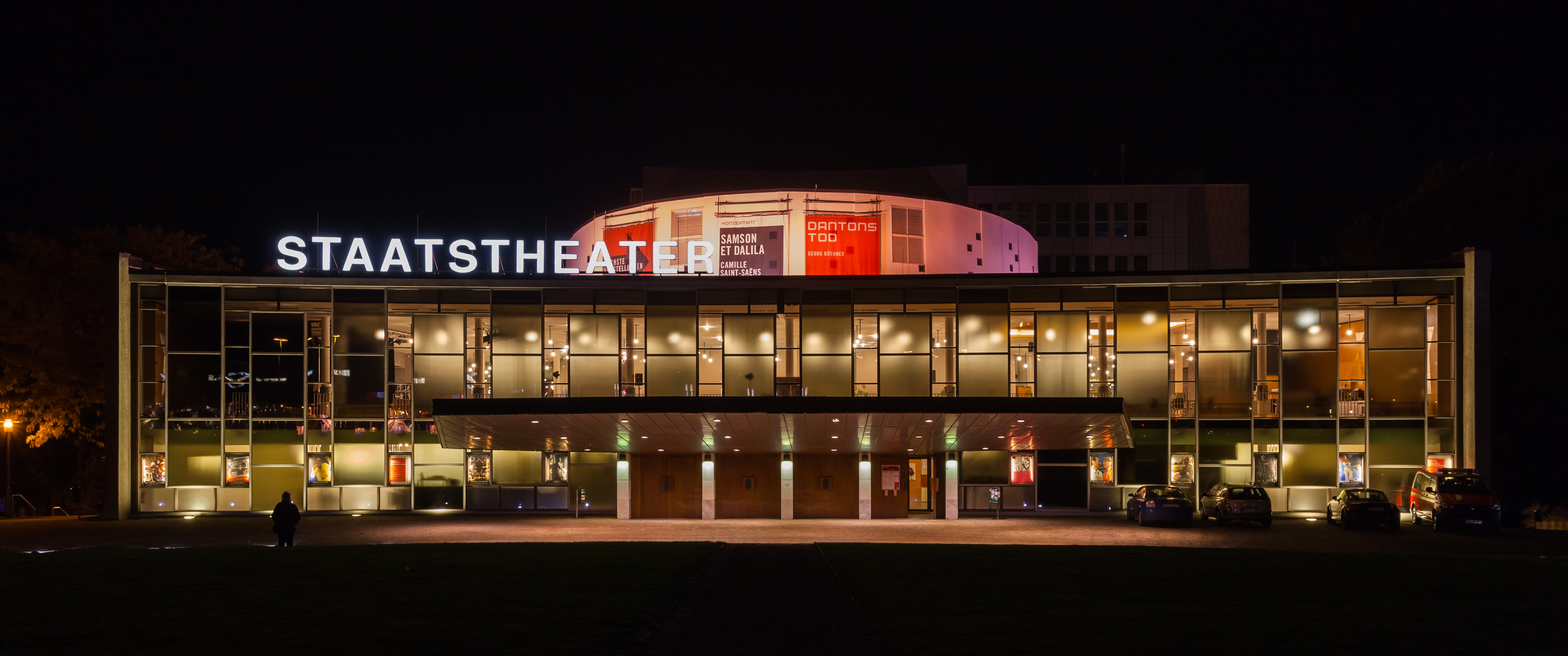 National Theater, Kassel, Germany